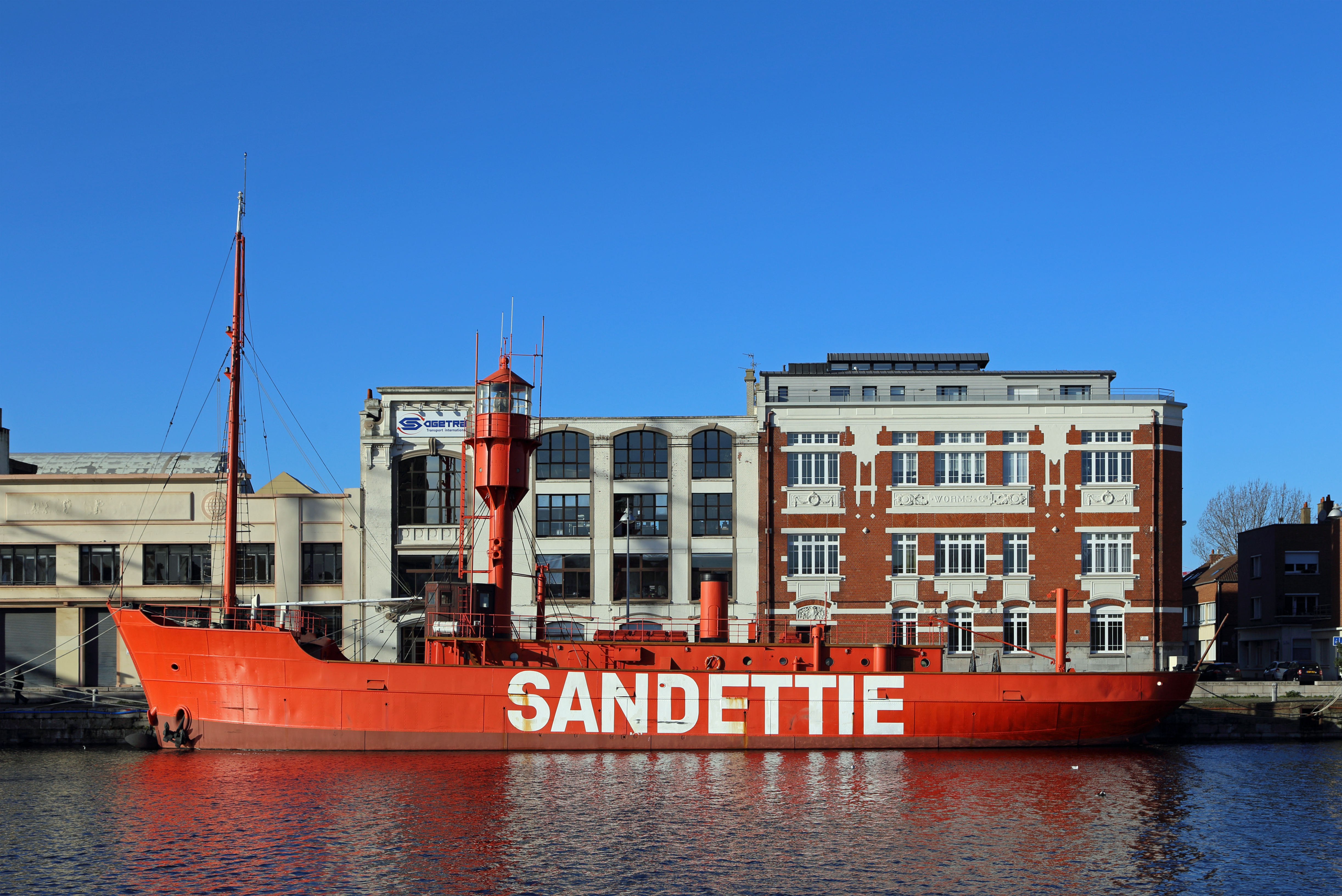 French lightship Sandettié in the port of Dunkirk (France)